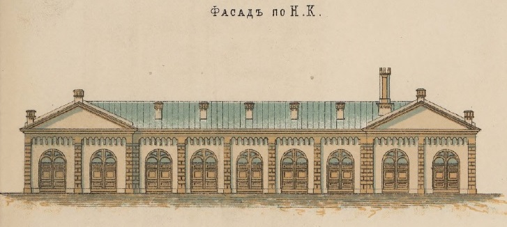 Railway depot. Tsarskoye Selo Railway. Russian Empire